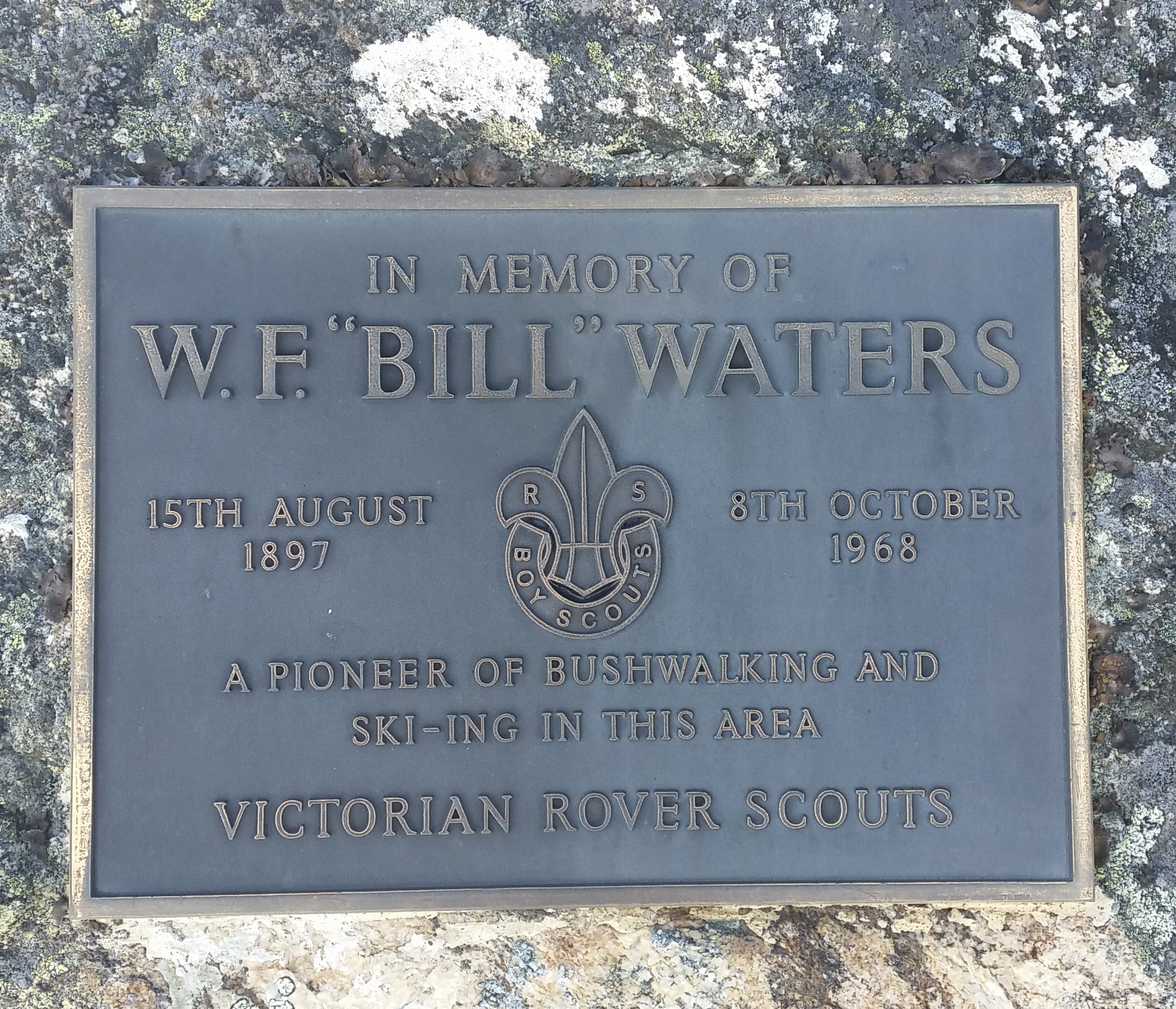 Memorial plaque of W.F. Waters, notable Victorian Skier, Bushwalker and Scout Leader on the Bogong High Plains at the site of his memorial service